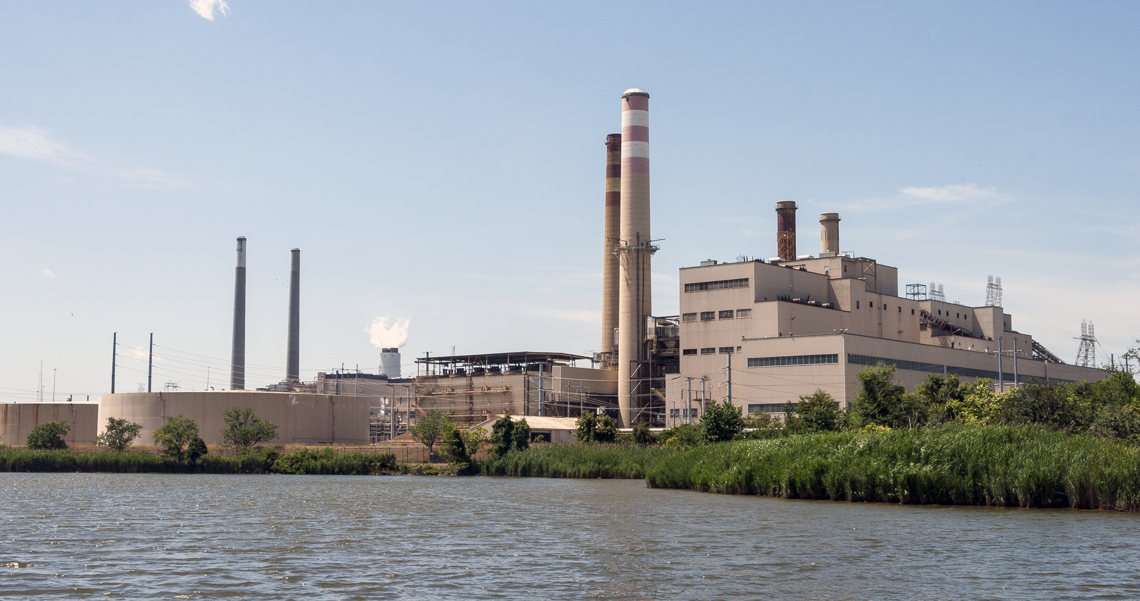 View of the Herbert A. Wagner Generating Station, on the south shore of the Patapsco River on Cox Creek, Maryland, USA. The tall inactive 700' stacks of the nearby Brandon Shores Generating Station are visible to the left, and the active 400' Brandon Shores stack is just visible to their right.